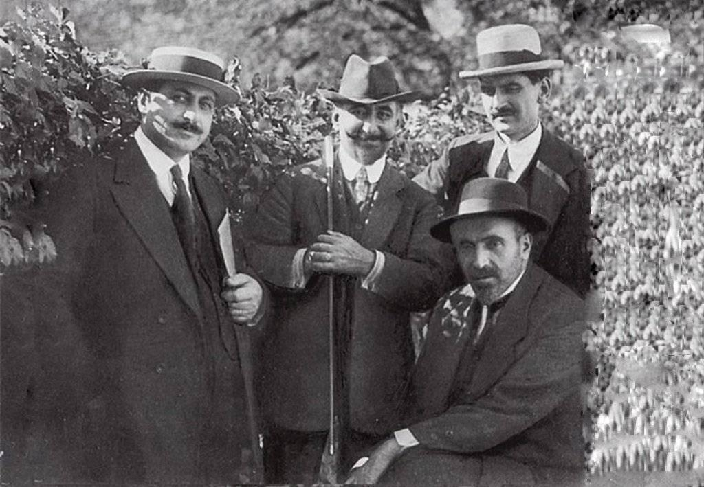 Yeghishe Tadevosyan, Vardges Surenyants, Martiros Saryan, Panos Terlemezyan